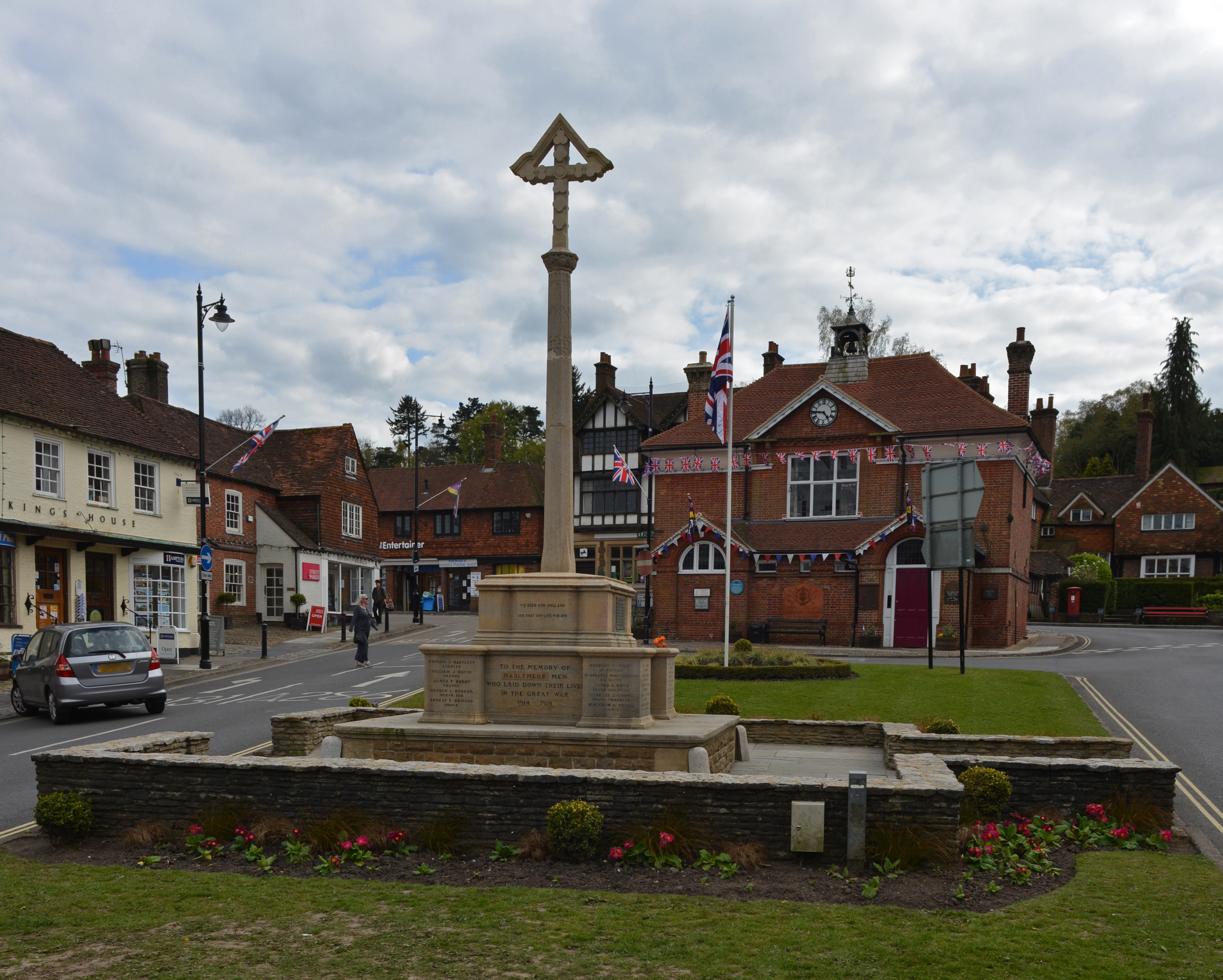 The main northwest façade of the town hall with the war memorial in the foreground